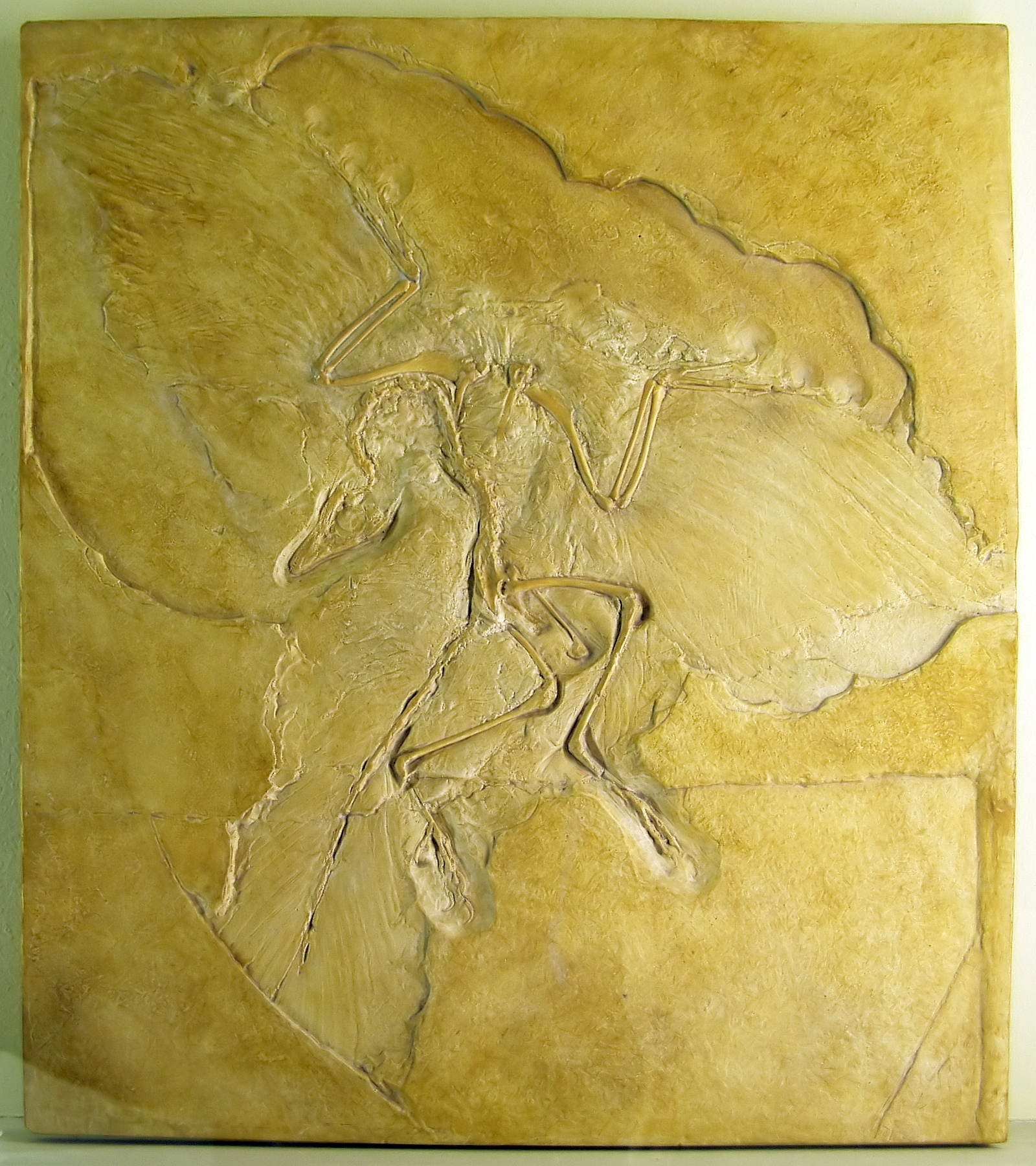 "Berliner Exemplar" of Archaeopteryx, Eichstätt. Museum für Naturkunde (Berlin).